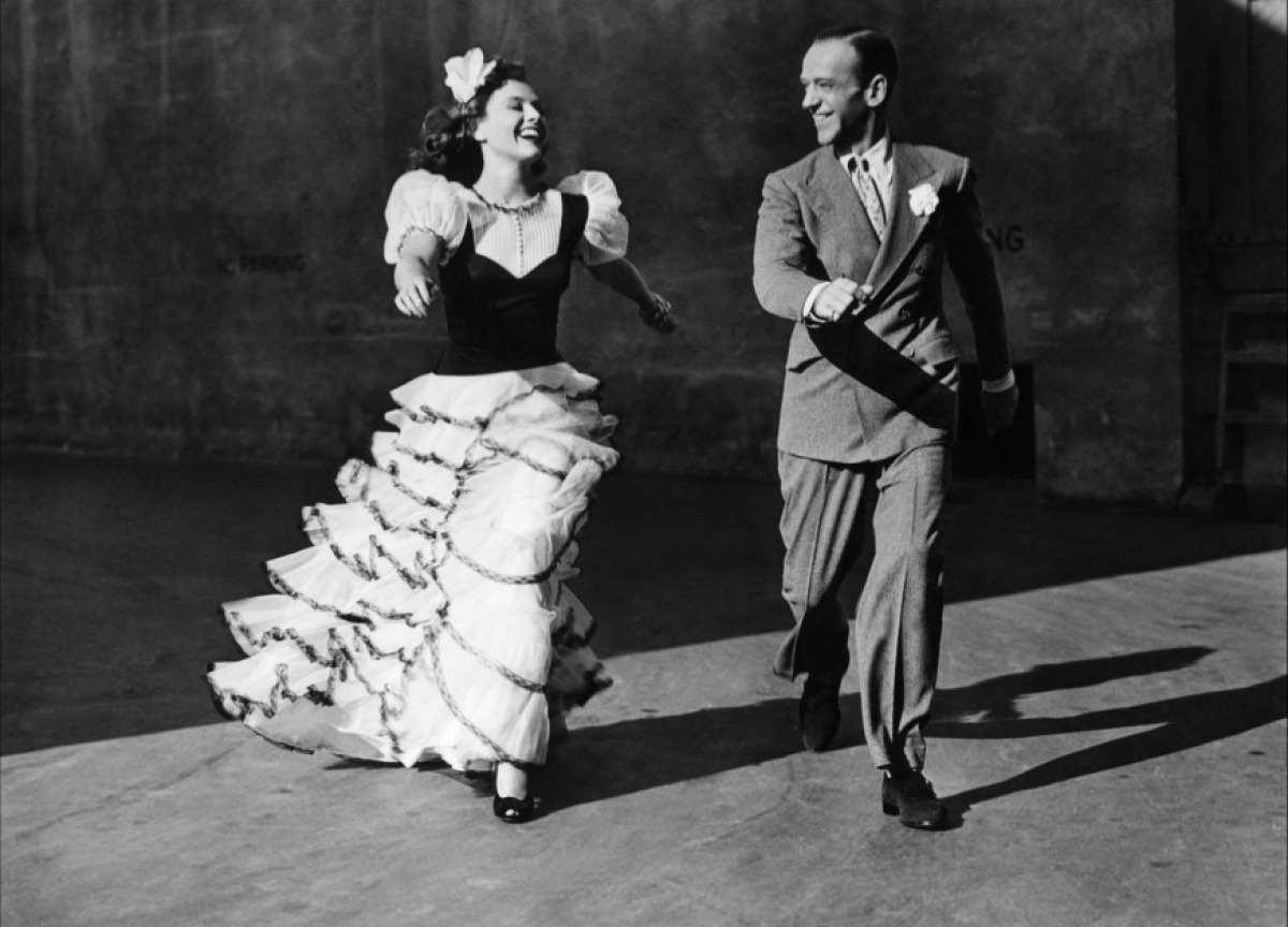 Paulette Goddard & Fred Astaire in Second Chorus - cropped screenshot